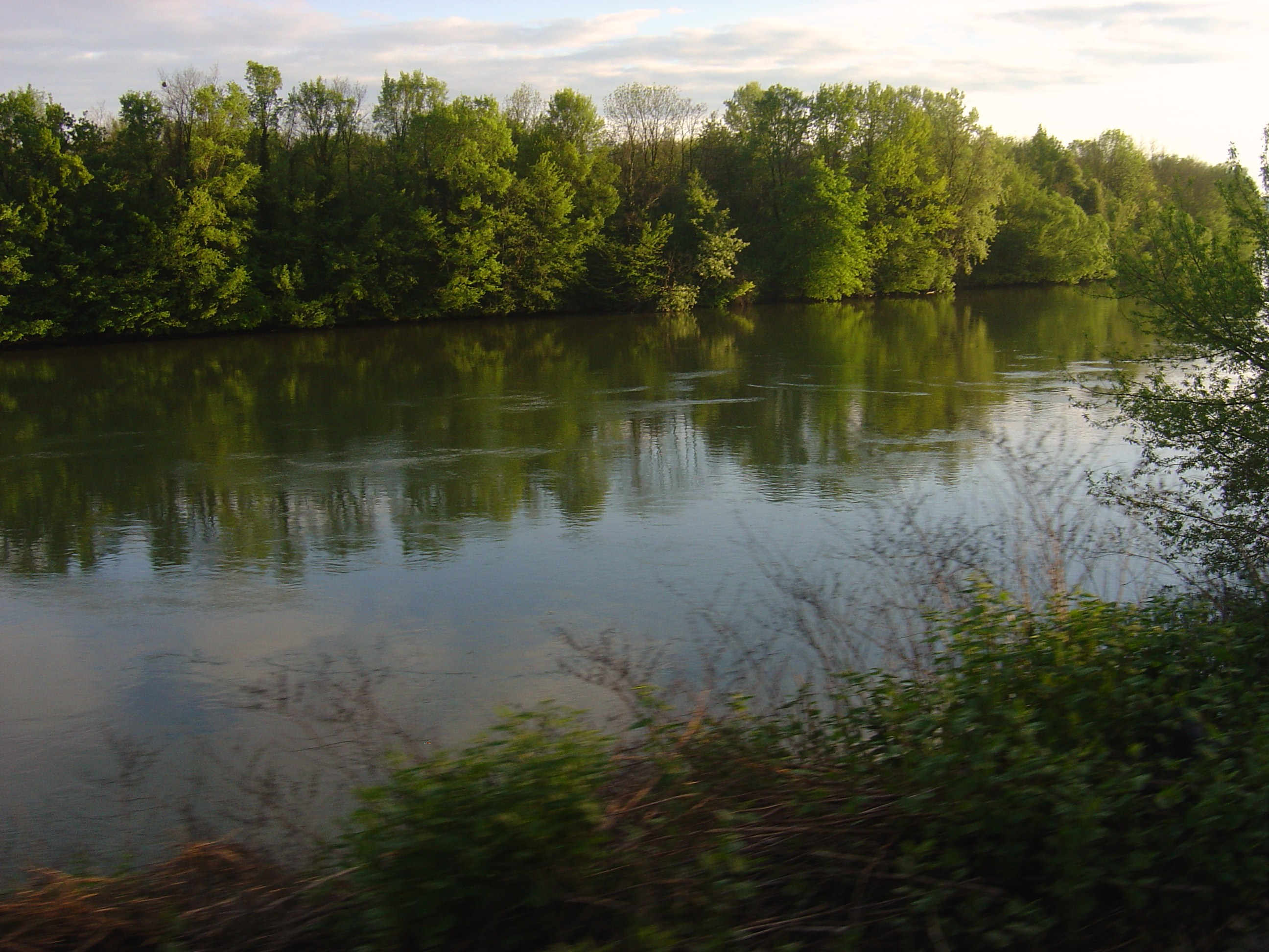 Ormož, Slovenia (Drava river as seen from Ormož, towards the Croatian side)